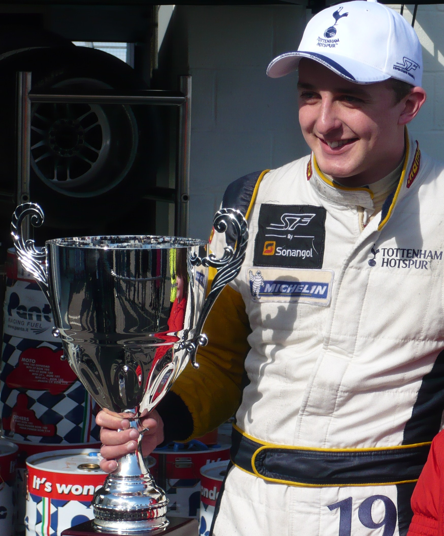 Craig Dolby with his race winner's trophy at Silverstone's 2010 SF round.